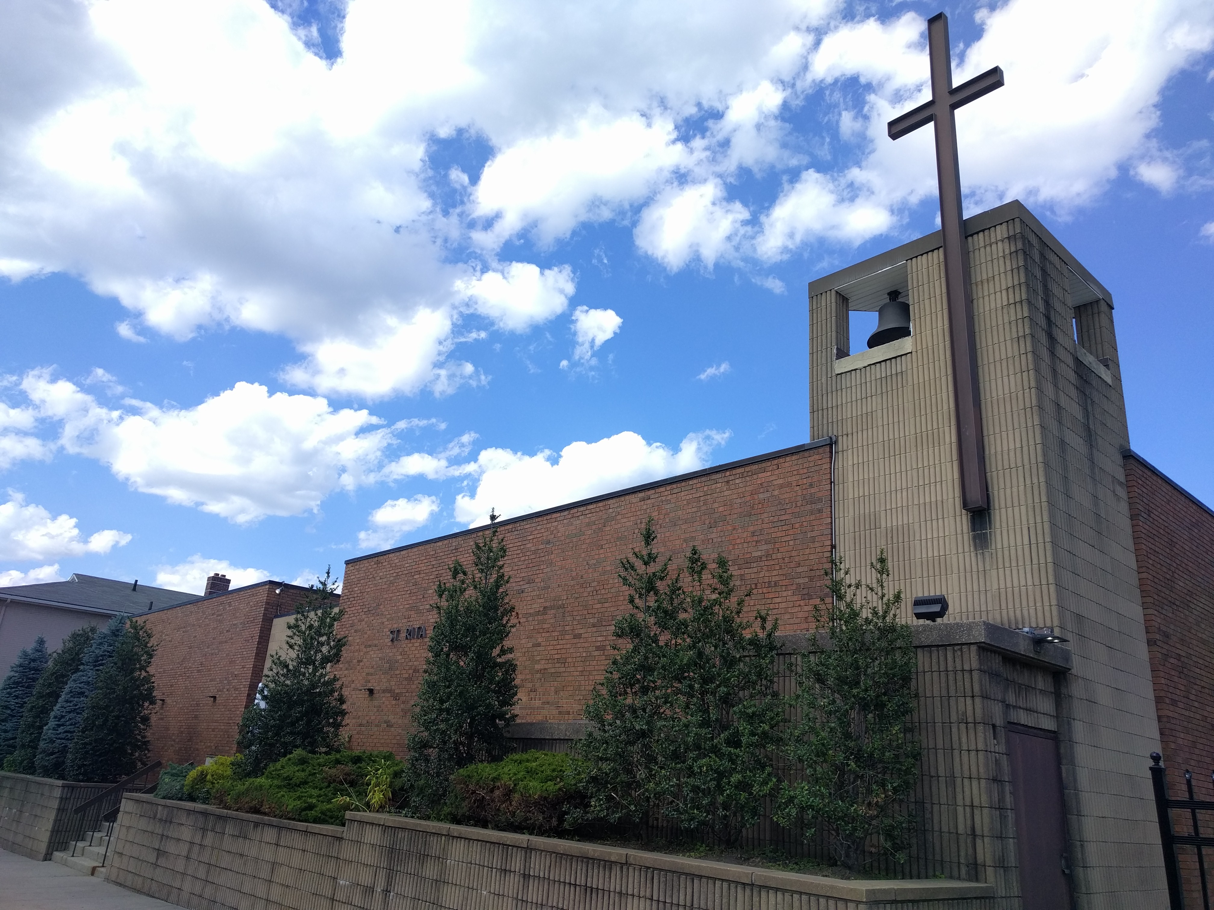 Looking Northeast from Bradley Avenue on a partly sunny afternoon.